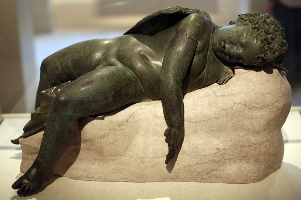 Bronze statue of Eros sleeping, 3rd century B.C.–early 1st century A.D. Greek or Roman Bronze; length 33 9/16 in. (85.24 cm) The Metropolitan Museum of Art, New York, Rogers Fund, 1943 (43.11.4) View at the Metropolitan Museum of Art website Wikipedia Loves Art at the Metropolitan Museum of Art This photo of item # 43.11.4 at the Metropolitan Museum of Art was contributed under the team name "shooting_brooklyn" as part of the Wikipedia Loves Art project in February 2009. Metropolitan Museum of Art The original photograph on Flickr was taken by shooting brooklyn—please add a comment to the original Flickr page whenever a use has been made on Wikipedia or another project. Project galleries on Flickr: this institution, this team